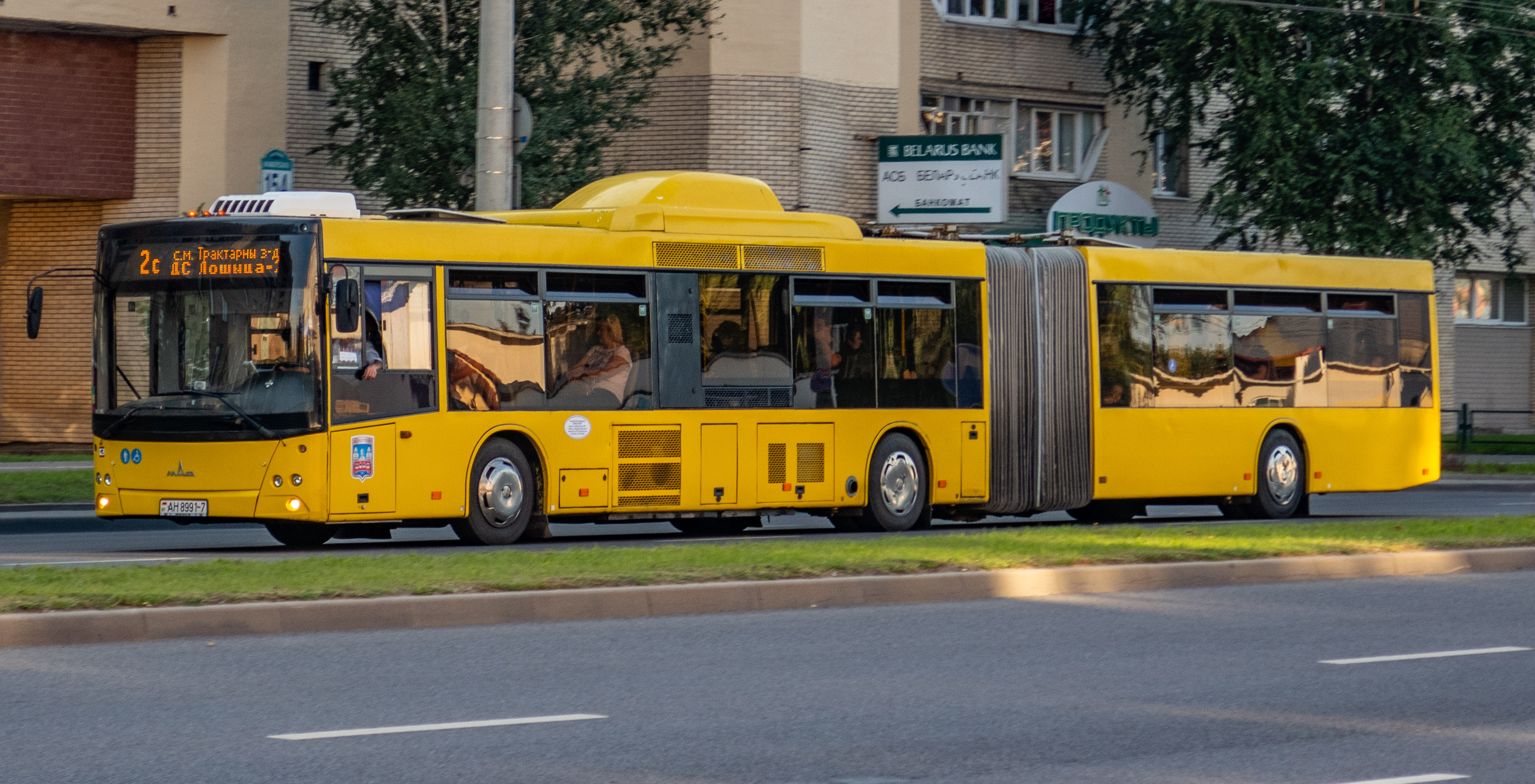 MAZ-215 bus. Minsk, Belarus